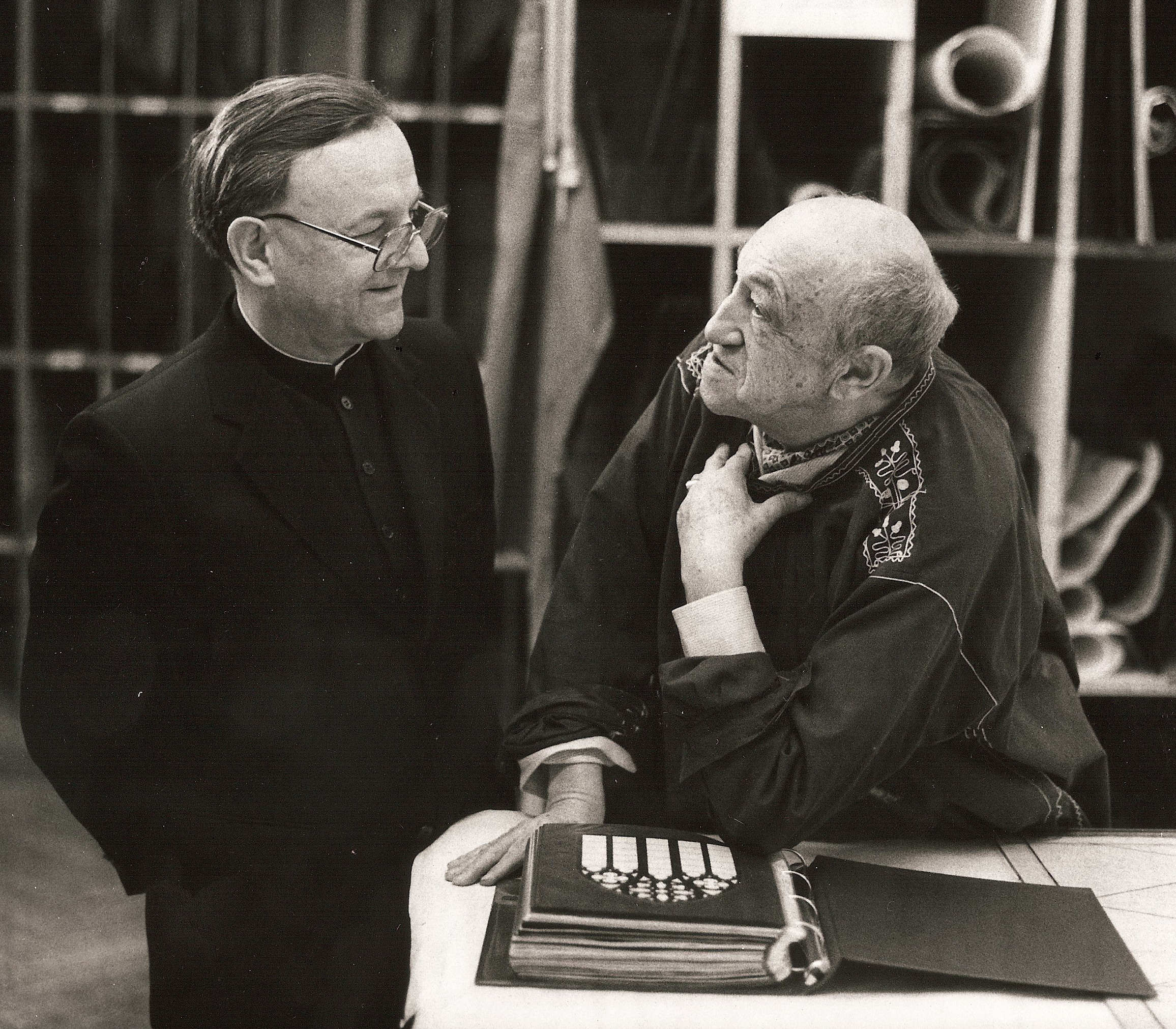 Vinzenz Guggenberger with Josef Oberberger in the stained glass studio